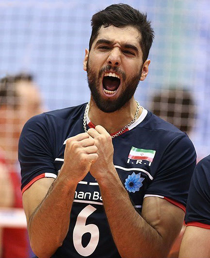 Mohammad Mousavi after victory against United States men's national volleyball team during 2015 FIVB Volleyball World League.